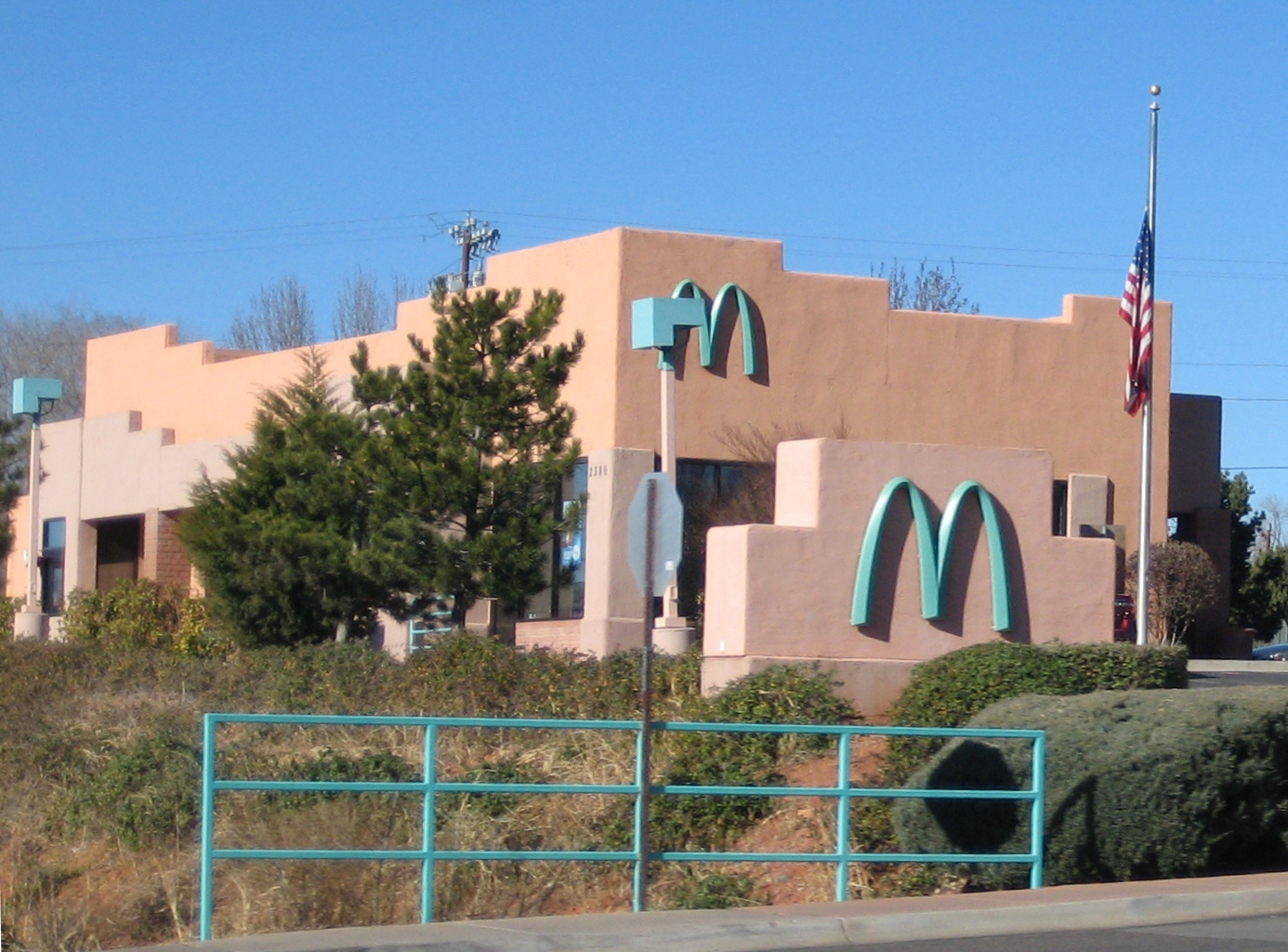 The McDonald's in Sedona, Arizona is the only one in the world with turquoise arches. This deviation from the standard yellow arches was done in order to make the building blend in with the natural surroundings better. Image:McDonaldsGreenArchesInSedonaArizona.jpg by Big slick69, 1/10/2007 9:02 (UTC) Arches are Avacado.